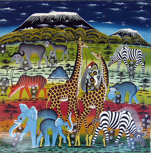 TT4798 by Amani - Tingatinga art (76x76cm), Oil on canvas